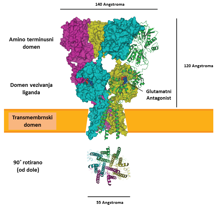 Serbian translation of the File:AMPA receptor.png